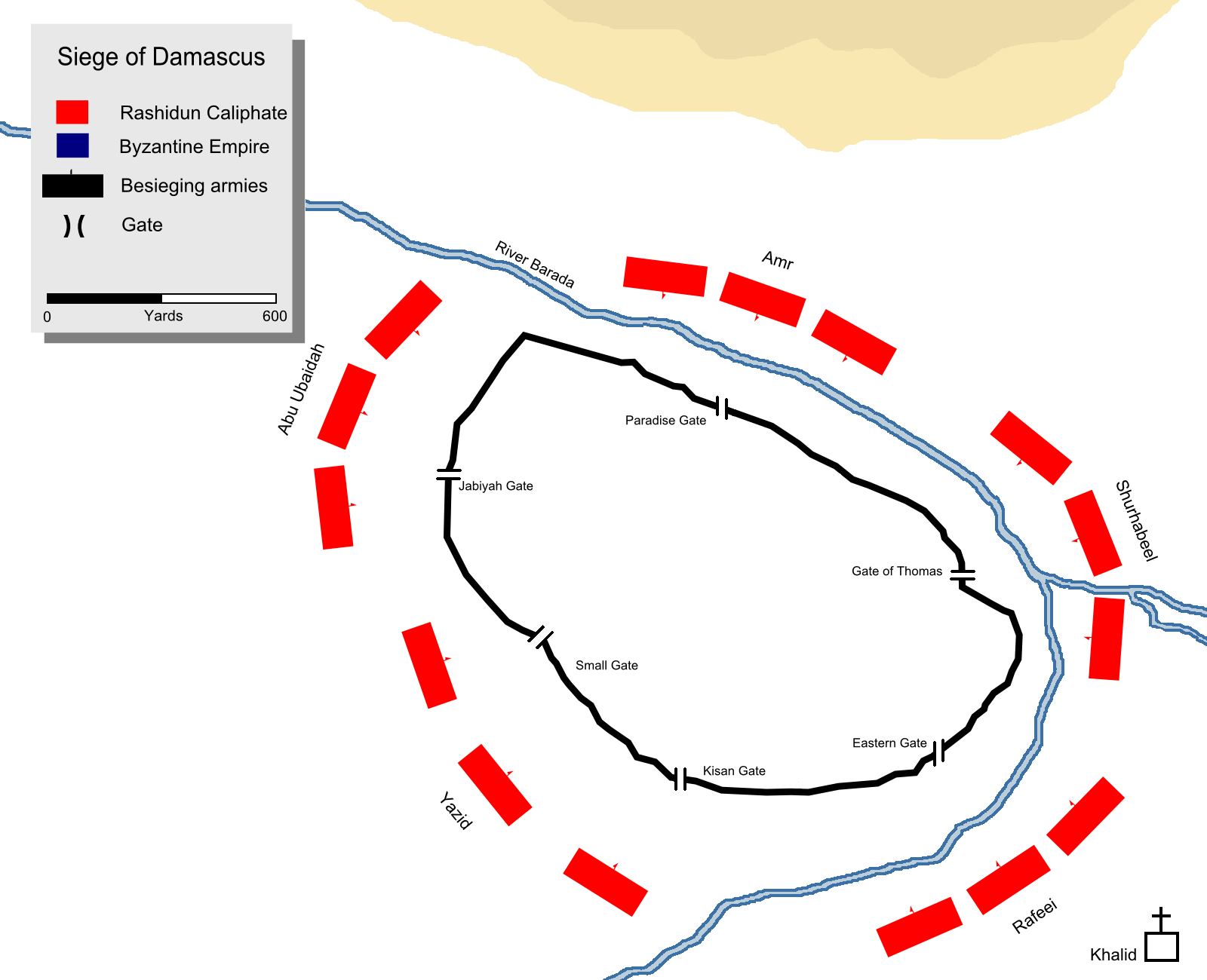 Siege of damascus 634